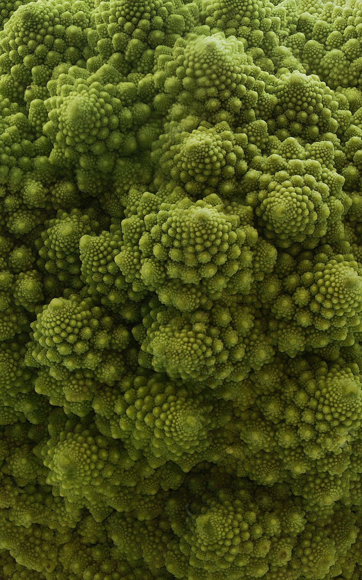 Romanesco broccoli or fractal broccoli is an edible flower of the species Brassica oleracea and a variant form of cauliflower.